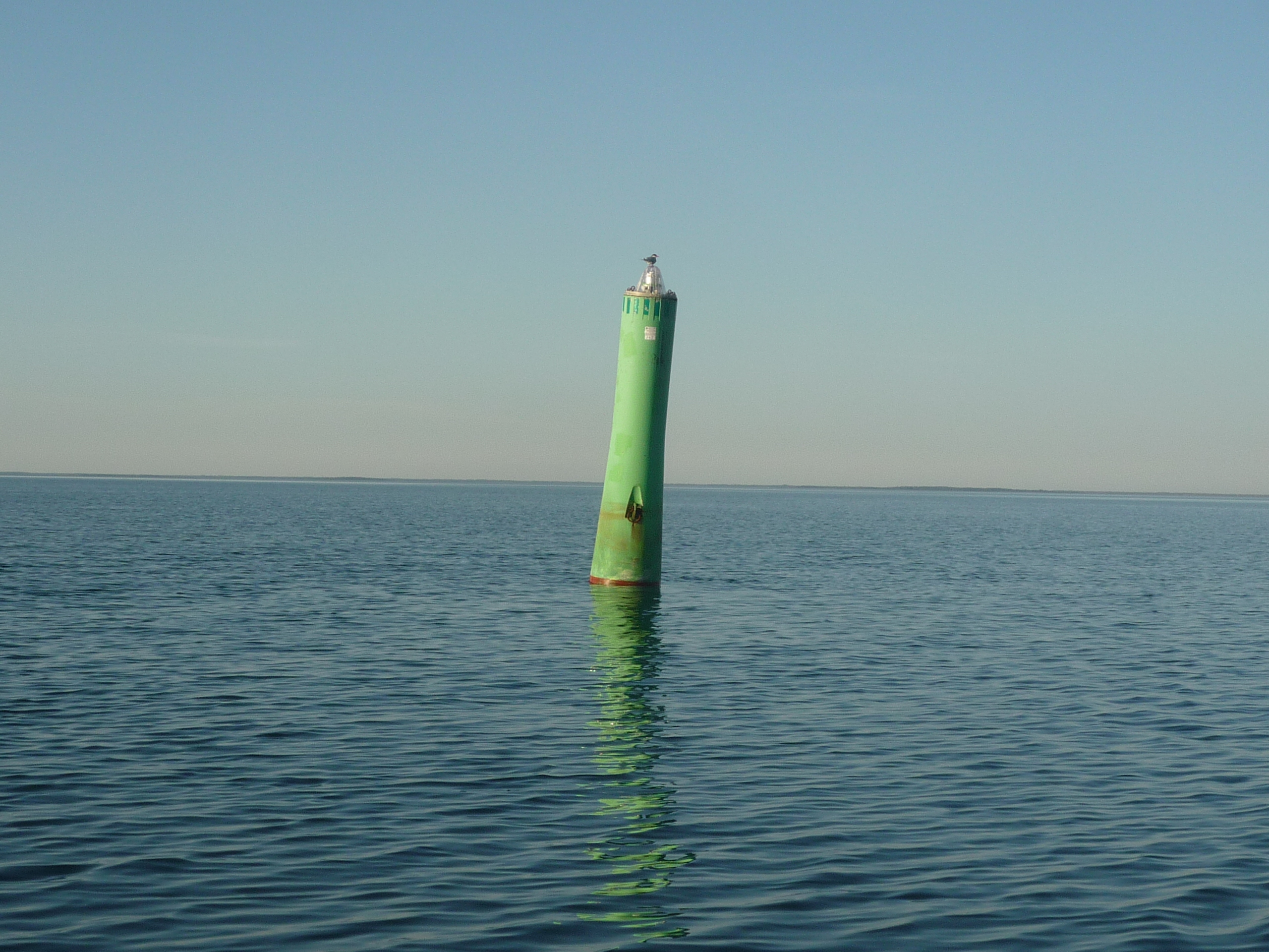 Buoy of Unterneeman. Moonsund, Estonia.